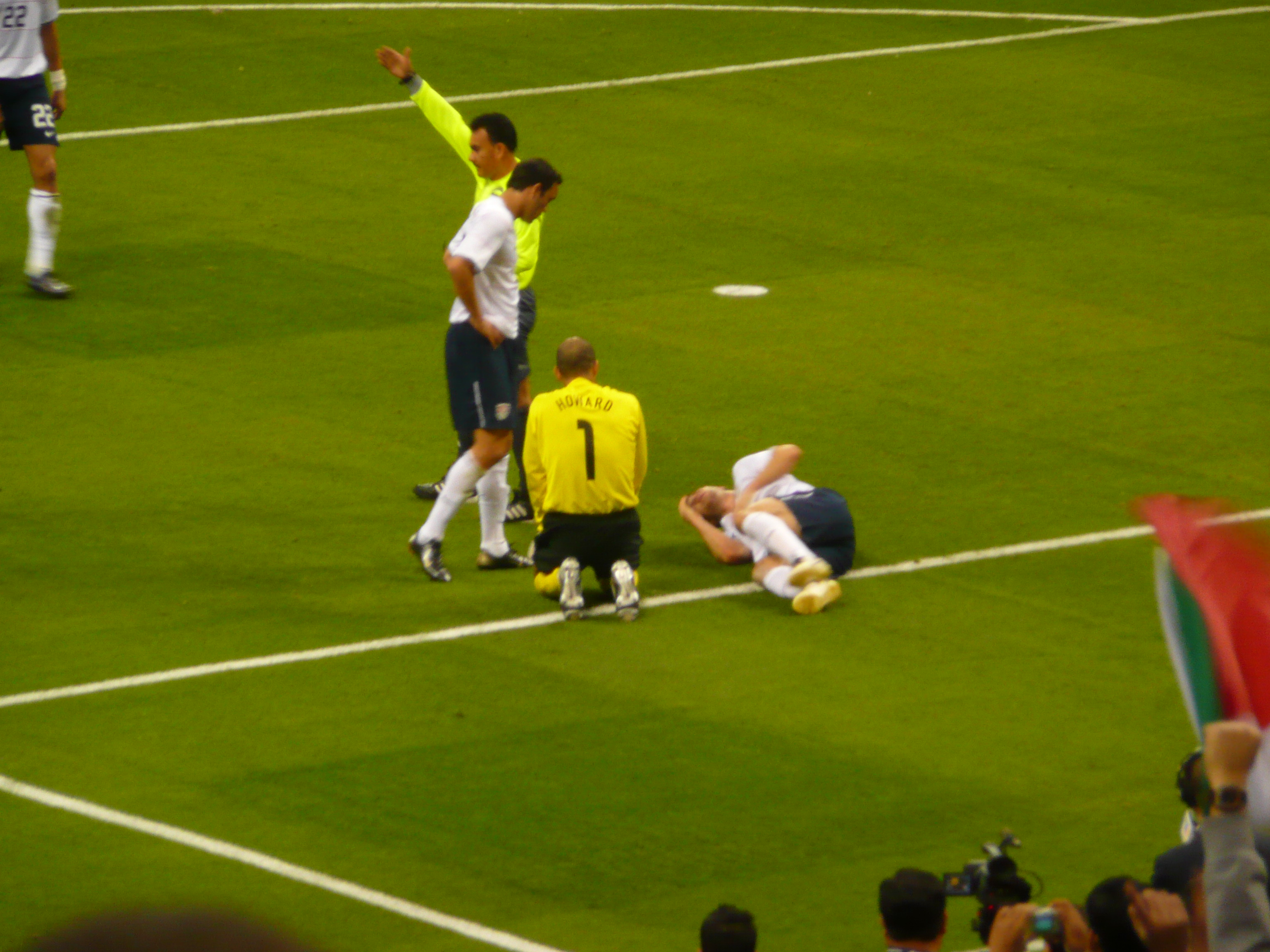 United States vs Mexico (football), 2008